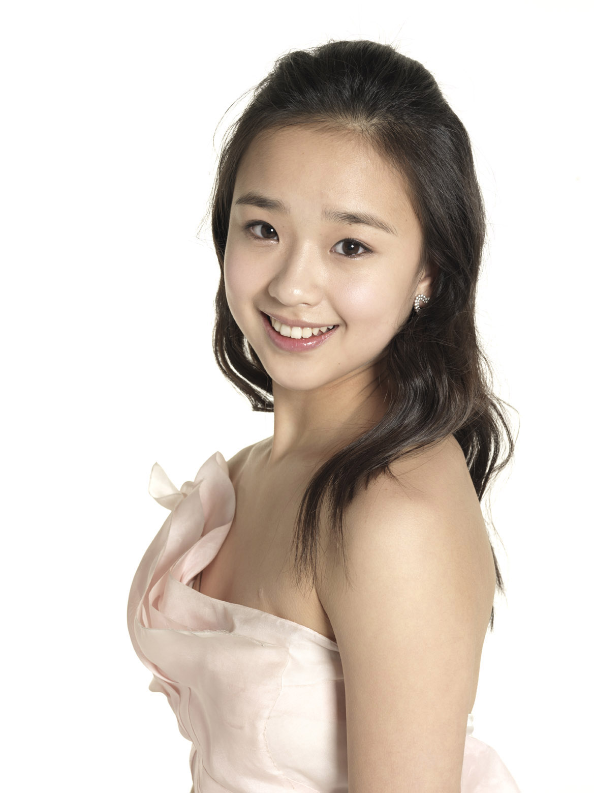 Son Yeon-Jae on LGE advertisement